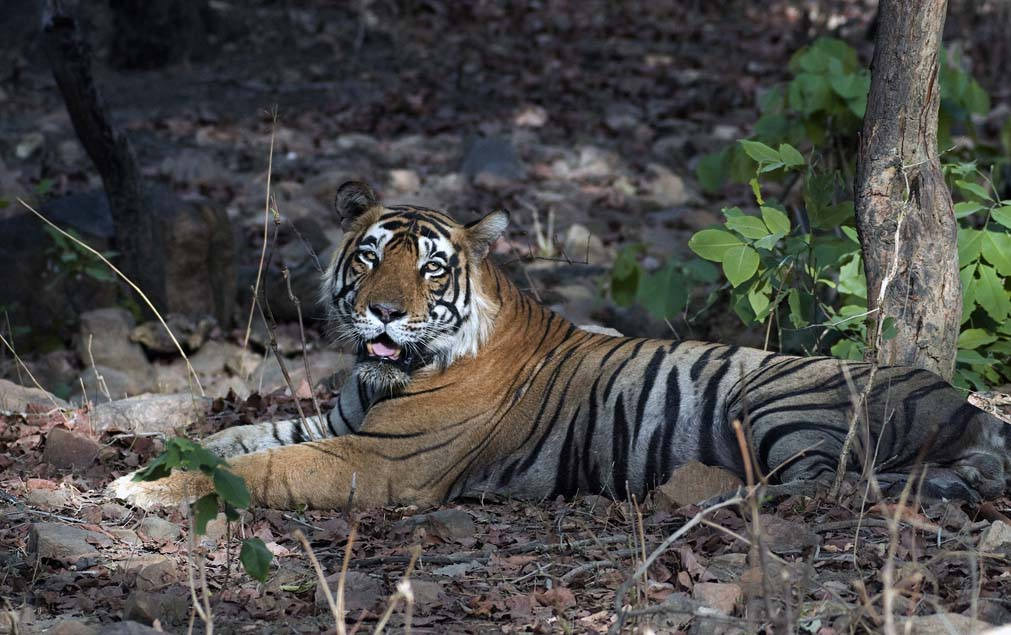 While I was away to Ranthambhore Tiger Reserve in Rajasthan with my Flickr friend, Naseer shooting this magnificent male tiger, T12, my photostream recorded the 300,000th hit. I owe it to all my friends on Flickr, whose support and encouragement helped in this endeavour! Ranthambhore is one of the best maintained Tiger Reserves in India. While sighting a tiger is sure and easy at Bandhavgarh, at Ranthambhore it is not so easy. But the reward is, once you are lucky to see one, more often than not, you get to photograph the big cat at close range, better than any other place on earth.